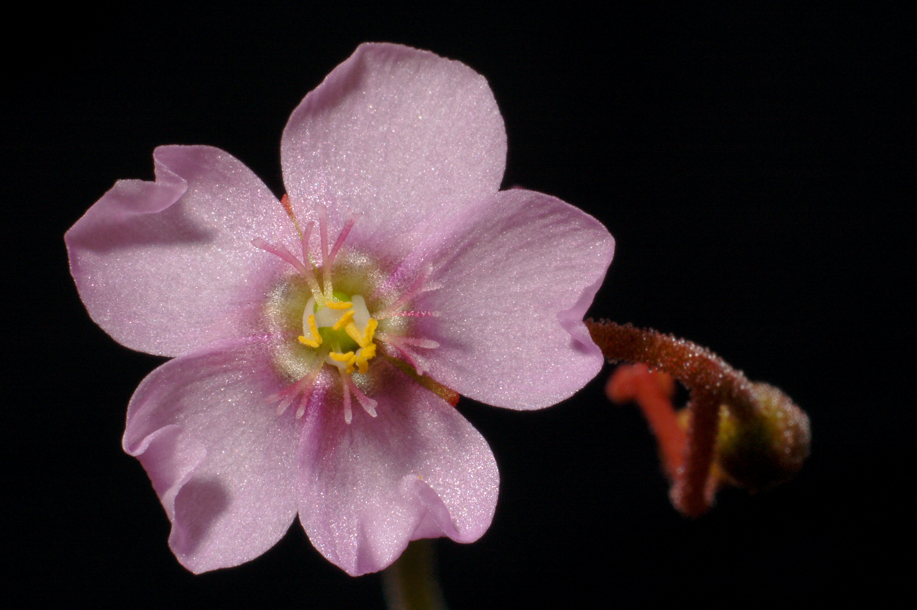 Drosera natalensis